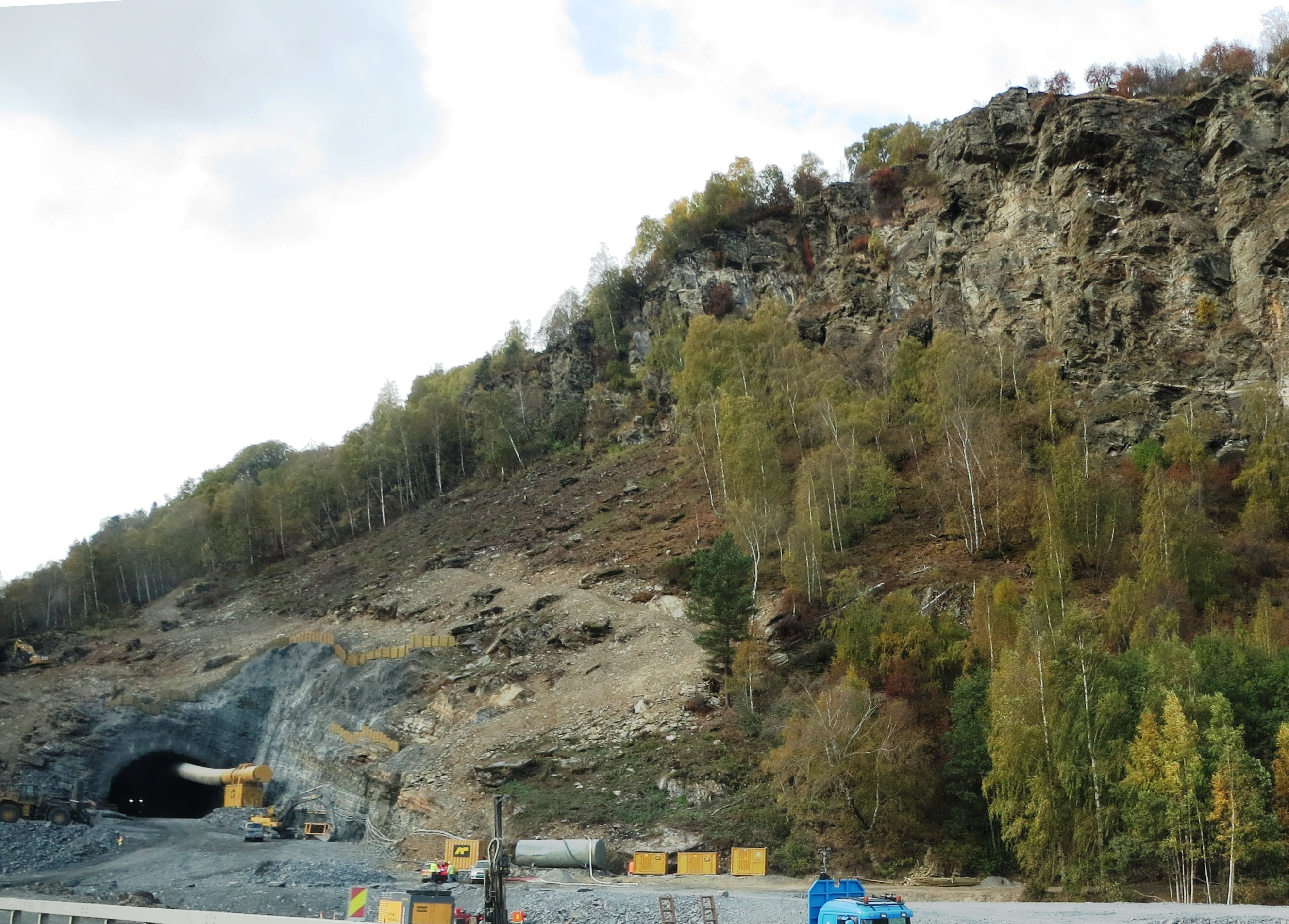 Image from the municipality of Sør-Fron in Oppland Count, Norway.